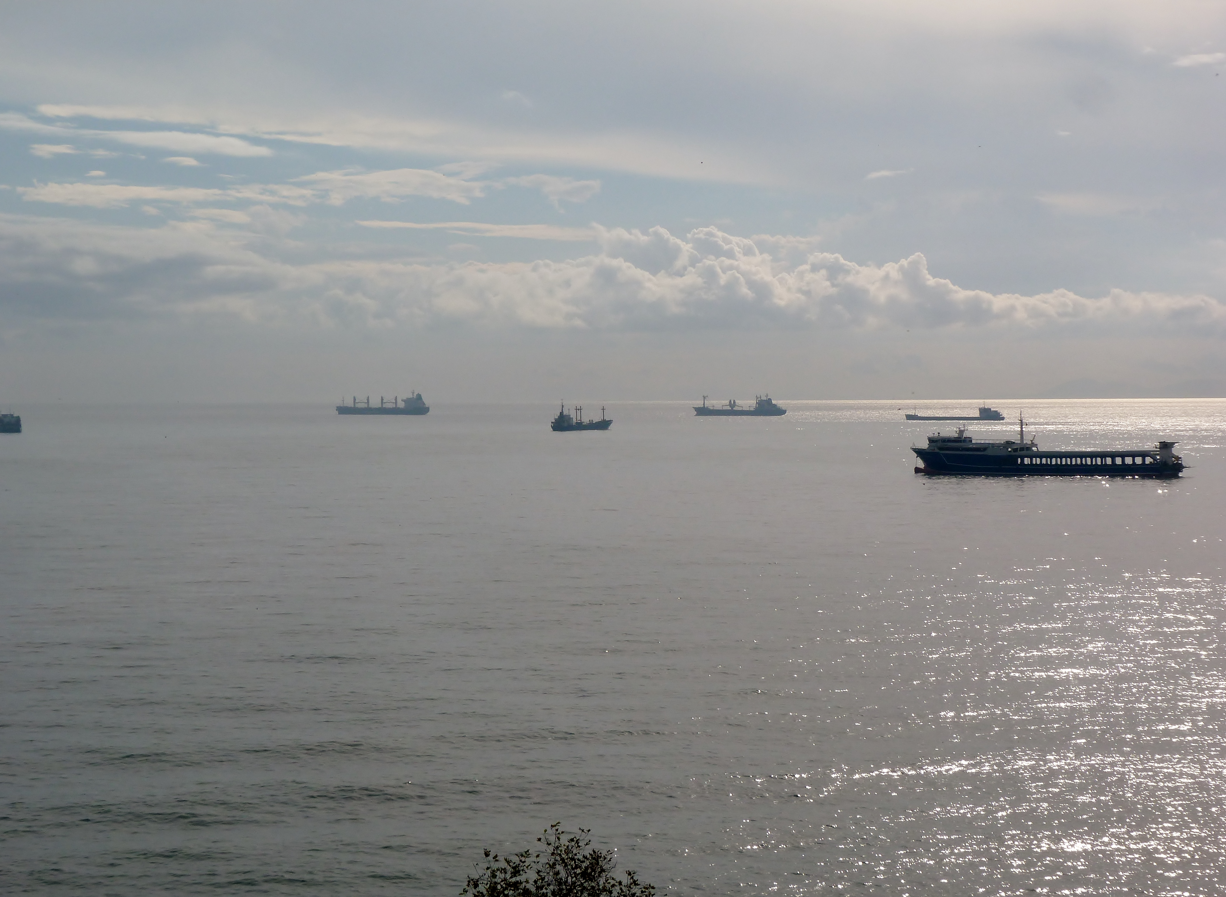 Live on the 25th of october, 2014. Rákóczi Museum, Tekirdağ, Turkey. ©© Derzsi Elekes Andor, Budapest, 2014, Published in the Metapolisz DVD line. You are authorised to use this vid under Creative Commons – even for commercial, for profit purposes. The vid must be attributed to Derzsi Elekes Andor. All of the photos and vids in the Metapolisz DVD line are under Creative Commons and can be used even for commercial – for profit – purposes. Recommended Citation Derzsi Elekes Andor: Metapolisz DVD line